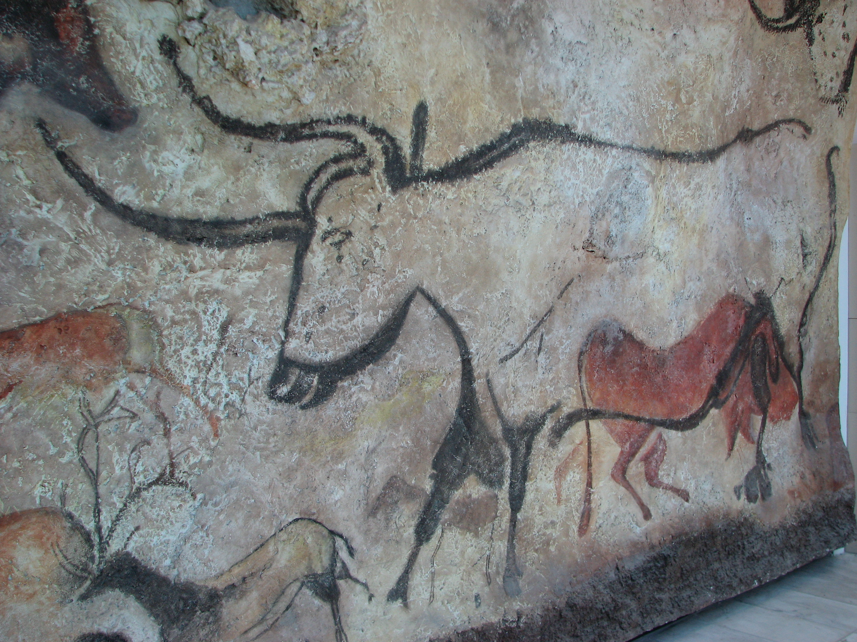 Lascaux, replica in the Brno museum Anthropos